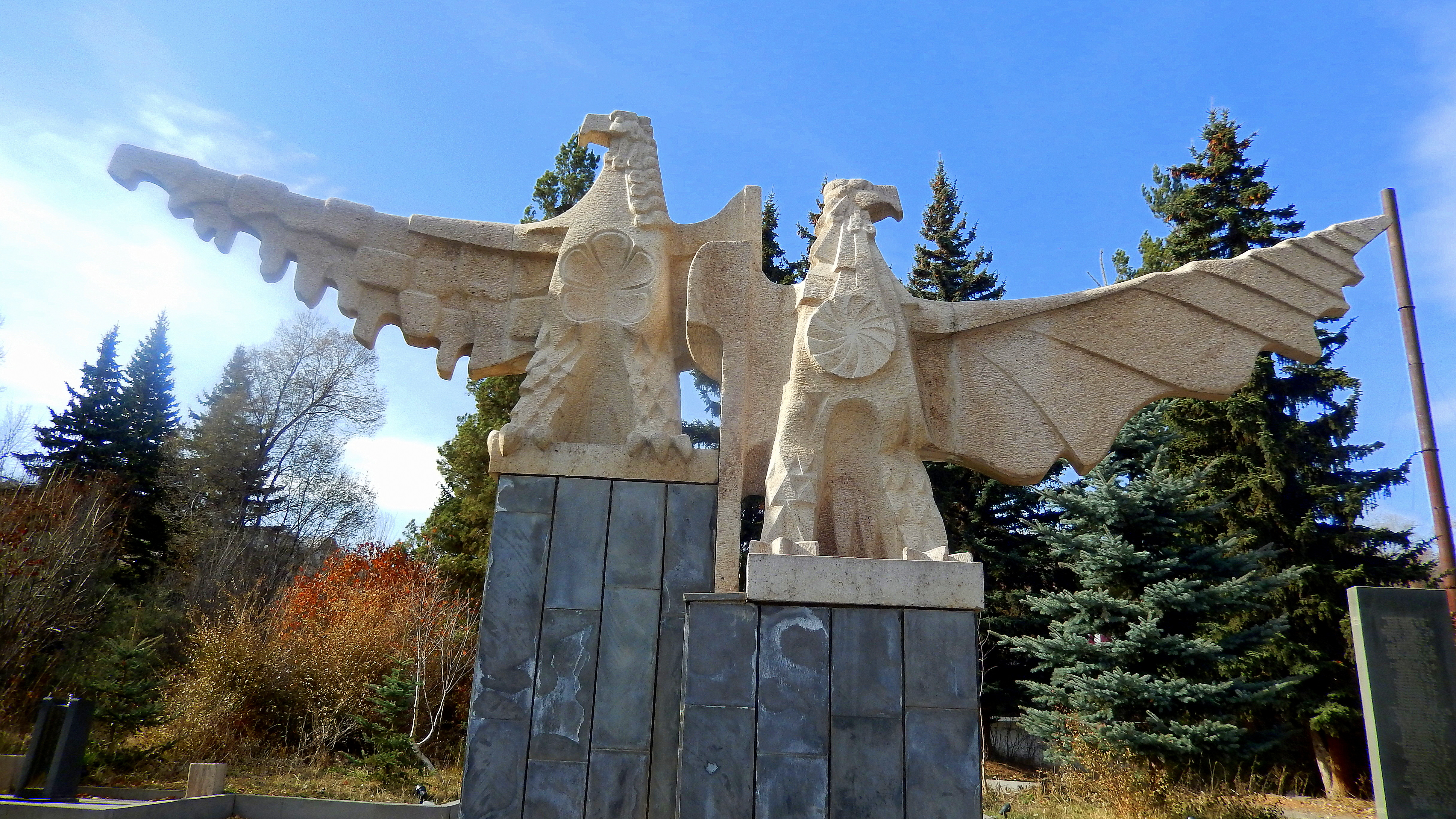 Hawk sculpture in Tsakhkadzor